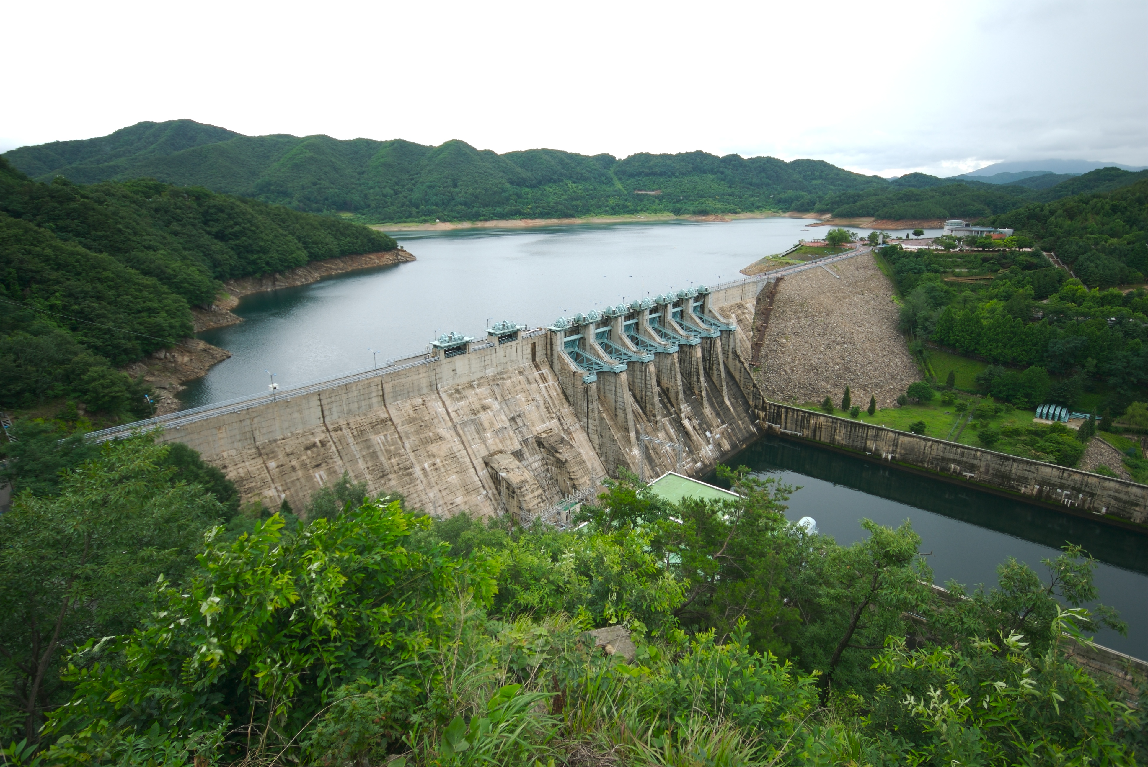 Photograph of the Daecheong Dam, which lies on the boundary between the metropolitan city of Daejeon and the North Chungcheong province in South Korea. The dam is located along the Geum River. The photograph was taken from an observation deck near the entrance to the path up to Hyunam Temple.